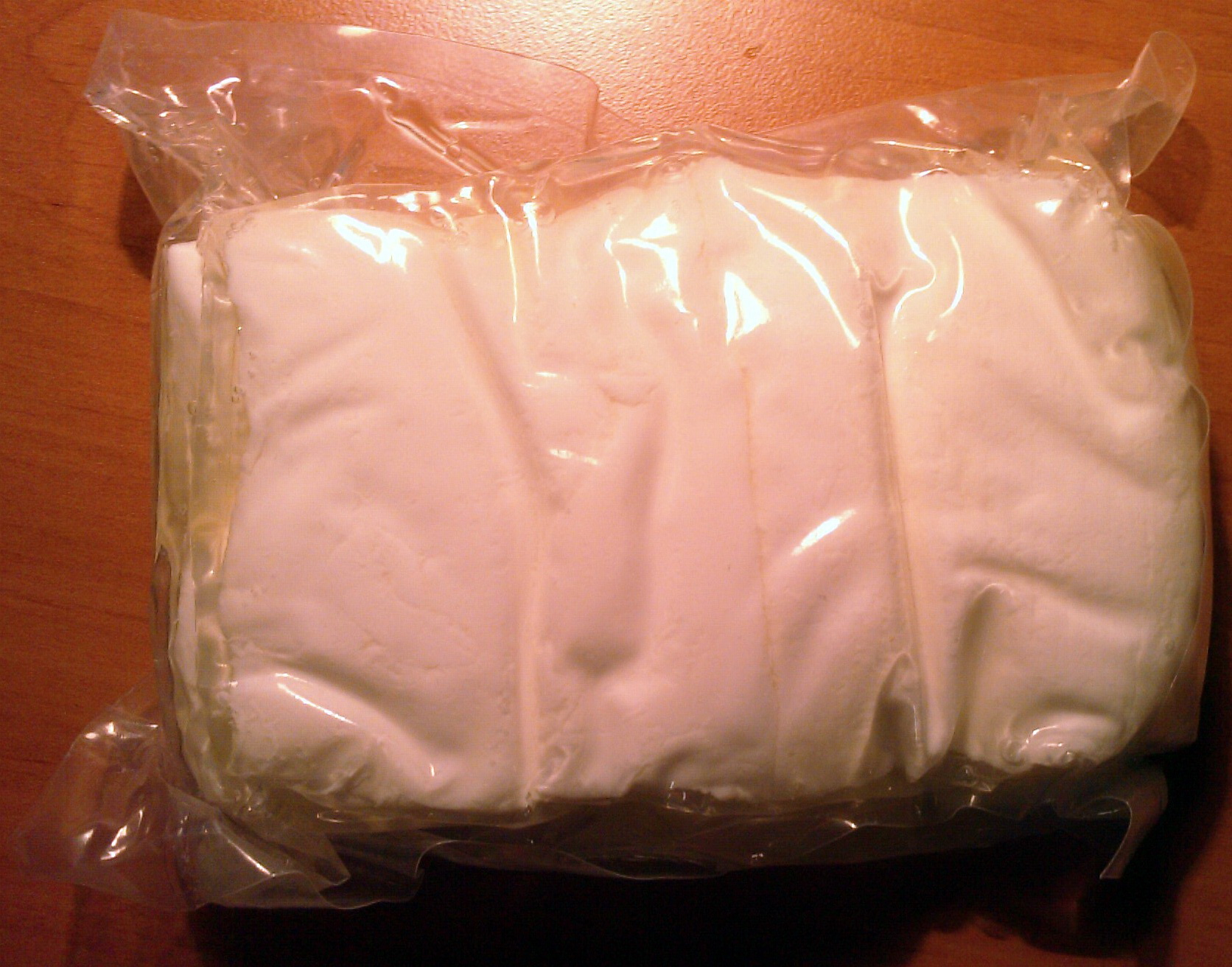 Shmaky protein food